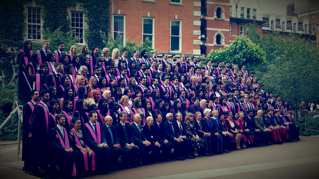 King's College Lindon graduates, GKT School of Medicine. Taken at Guy's Campus quad.